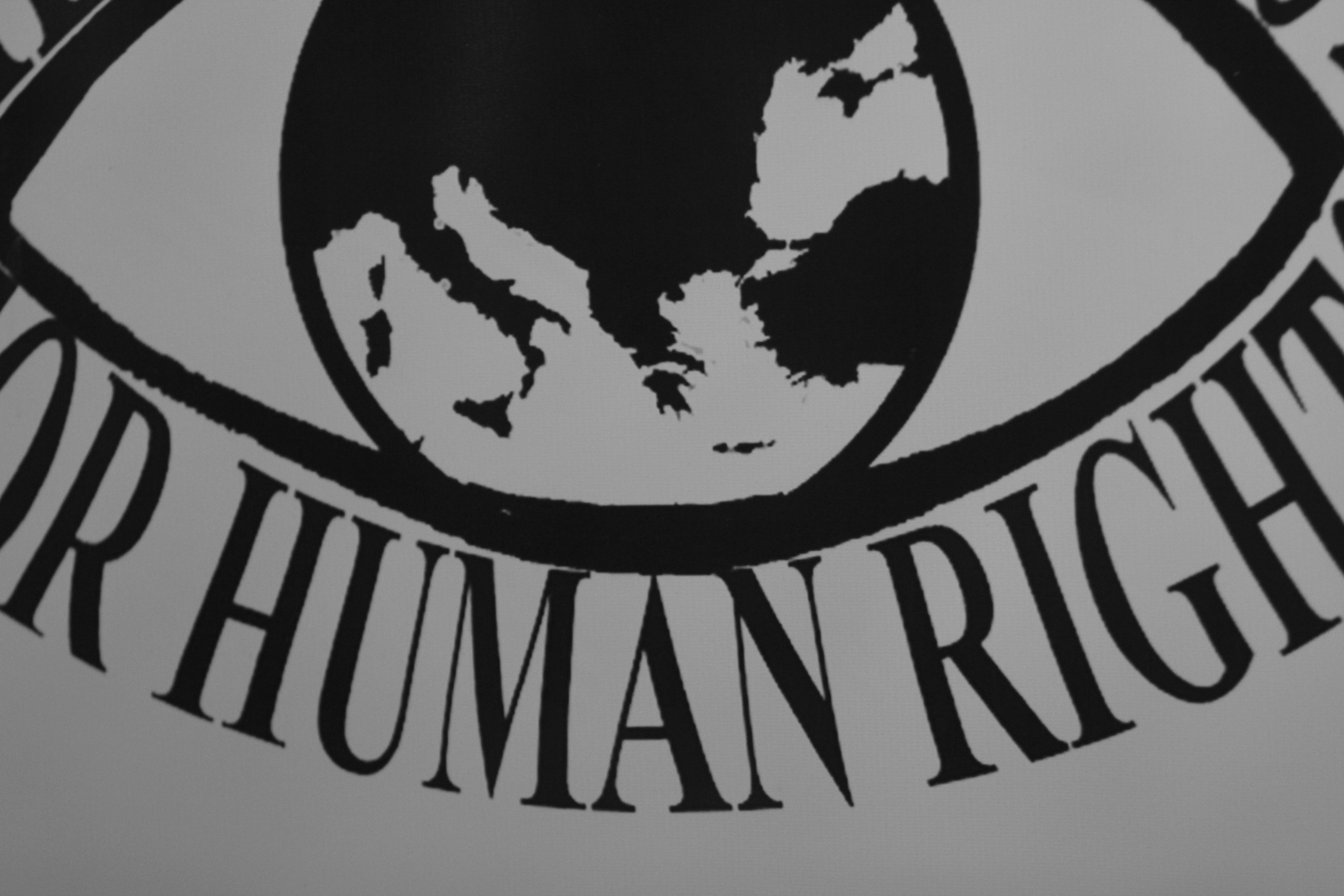 Athens Pride 2013: Detail from a stand of a human rights organization founded by Electra Leda Koutra. Photo for journalistic purposes without any copyright restriction.